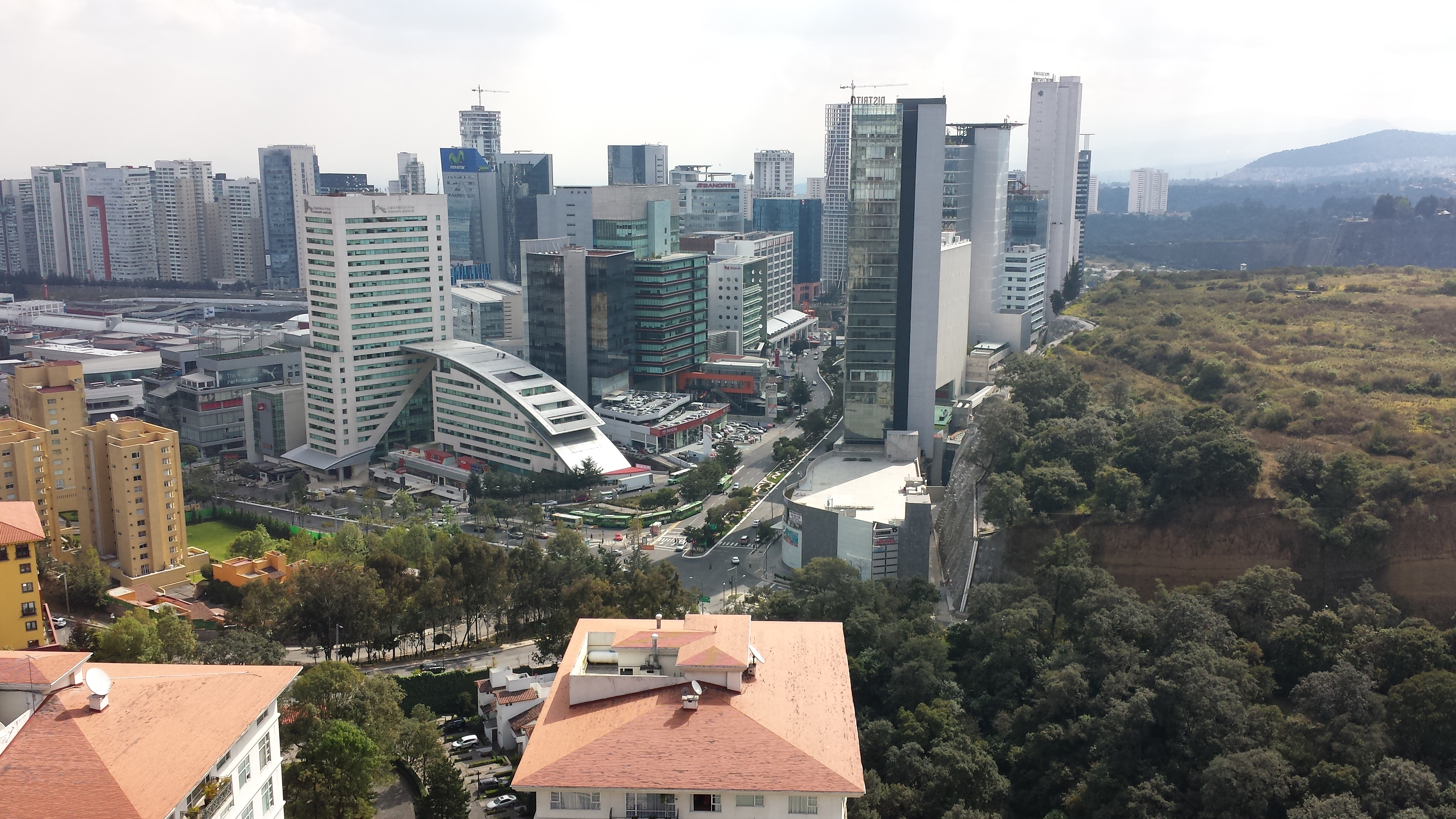 It's Mexico City's area called Santa Fe, which is full of big companies' HQ buildings.